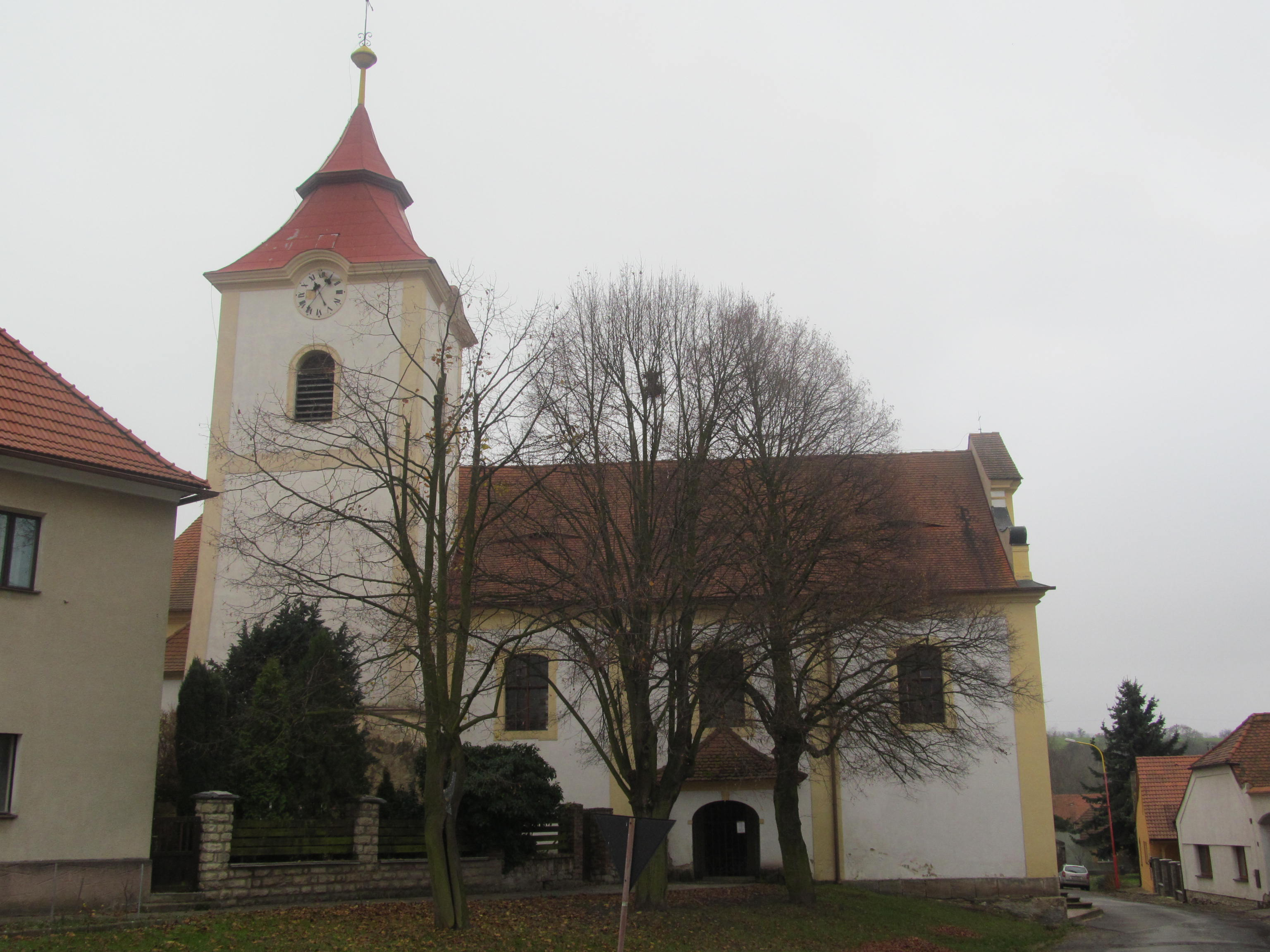 Church of the Assumption in Opočno, Louny District